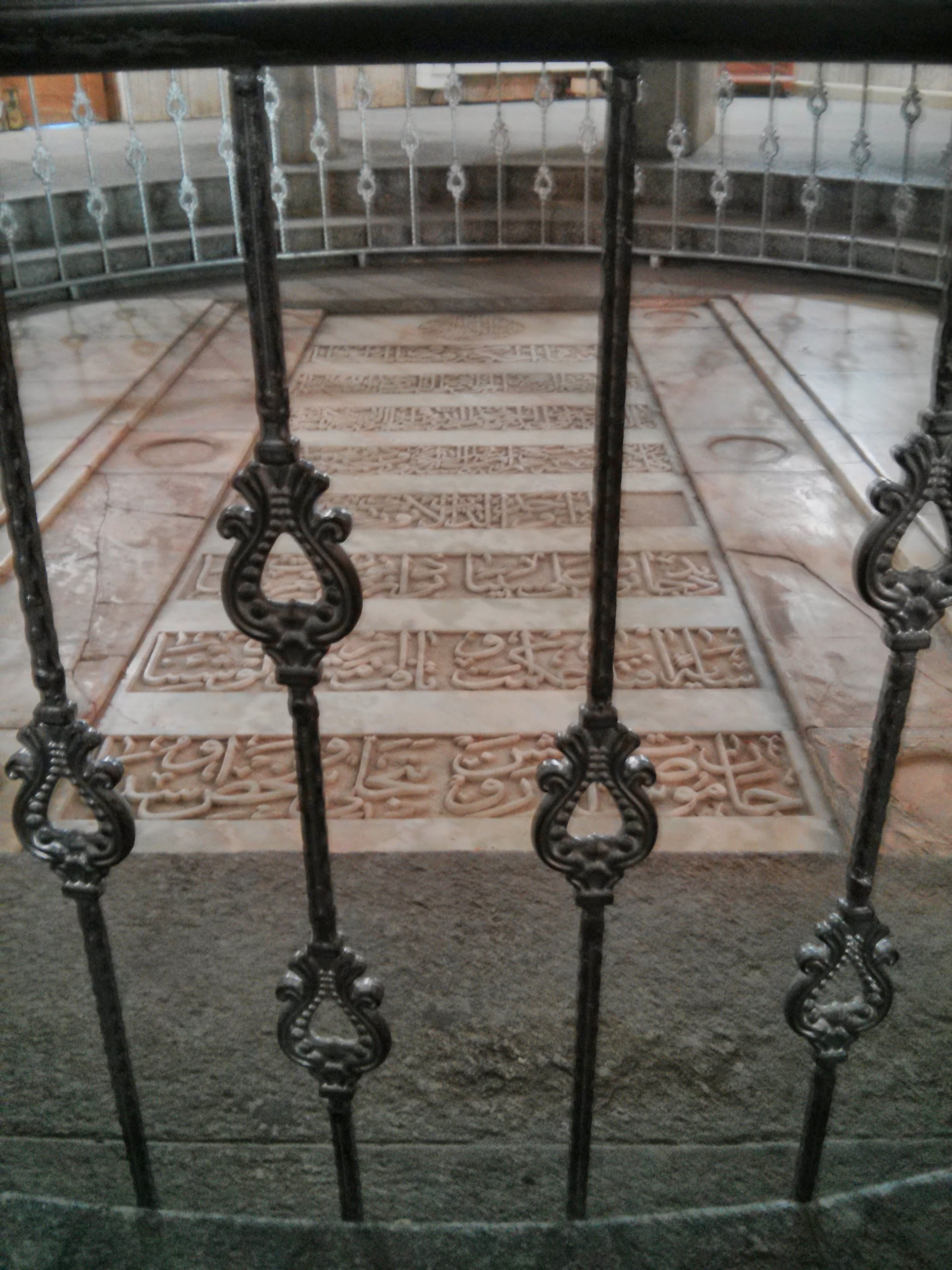 gravestone of Avicenna, Hamedan, Iran